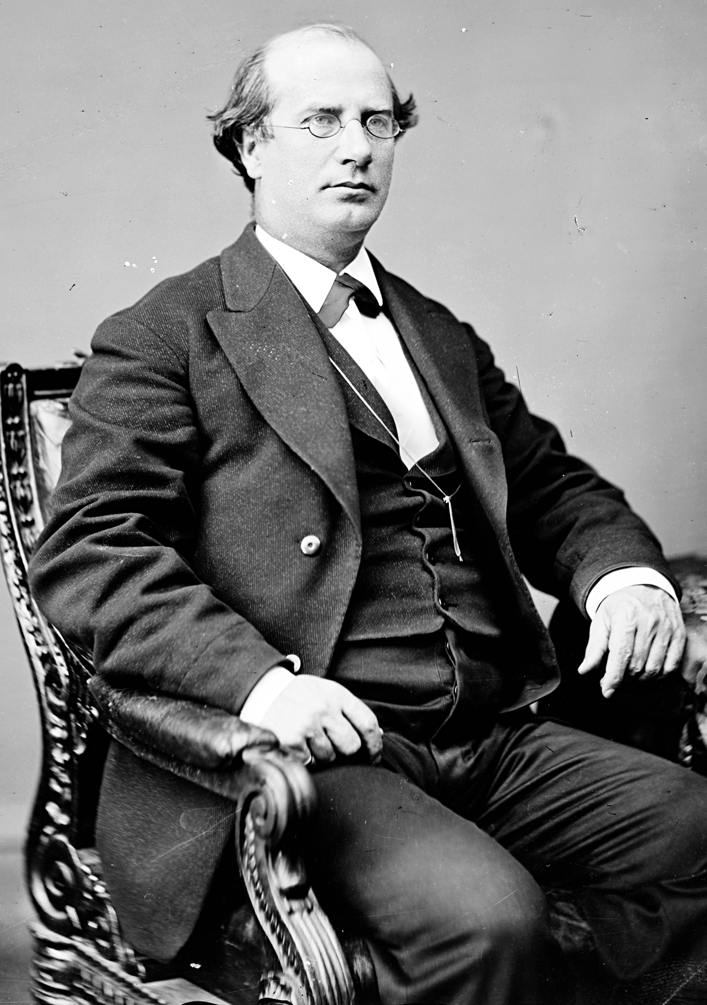 John Manning, Jr., US Representative from North Carolina